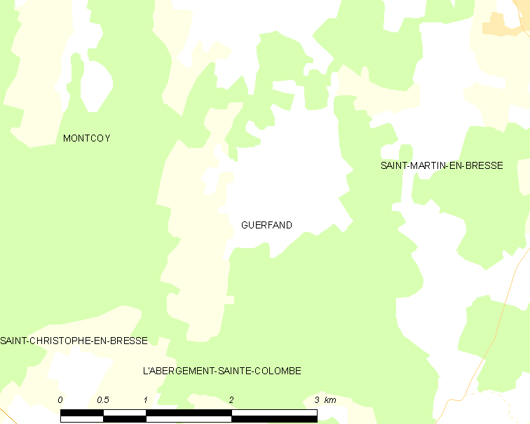 Map of French municipality